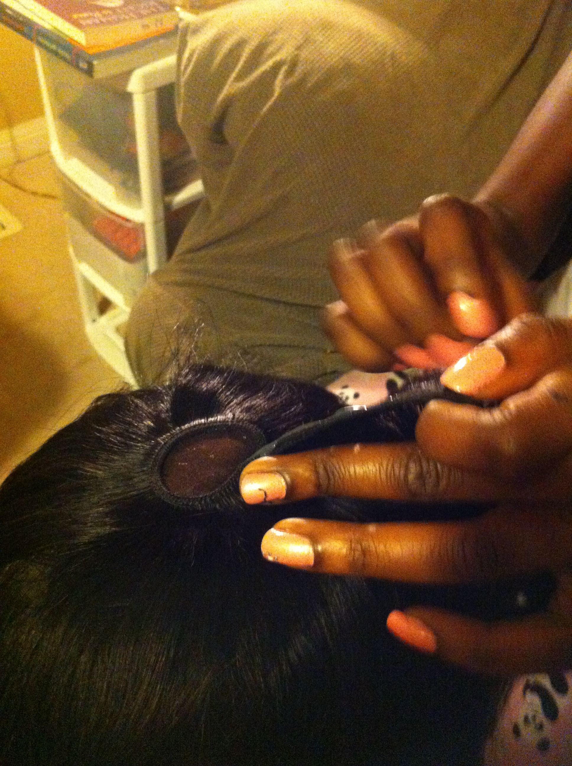 Closing up netting process near the crown of the head. Using adhesive to glue track onto net cap.